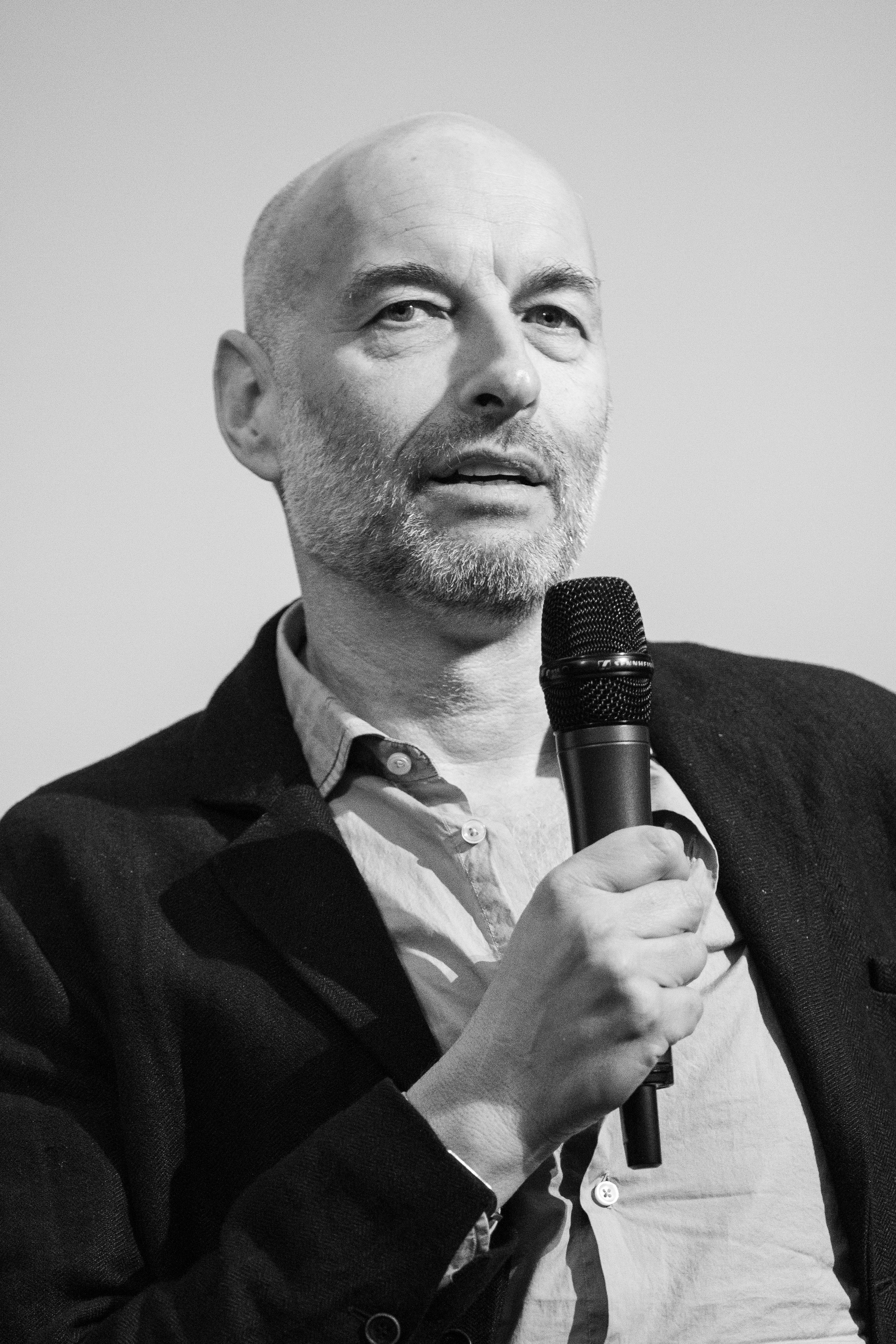 Director Andreas Kleinert at the German Television Crime Festival(Deutsches FernsehKrimi-Festival) 2019